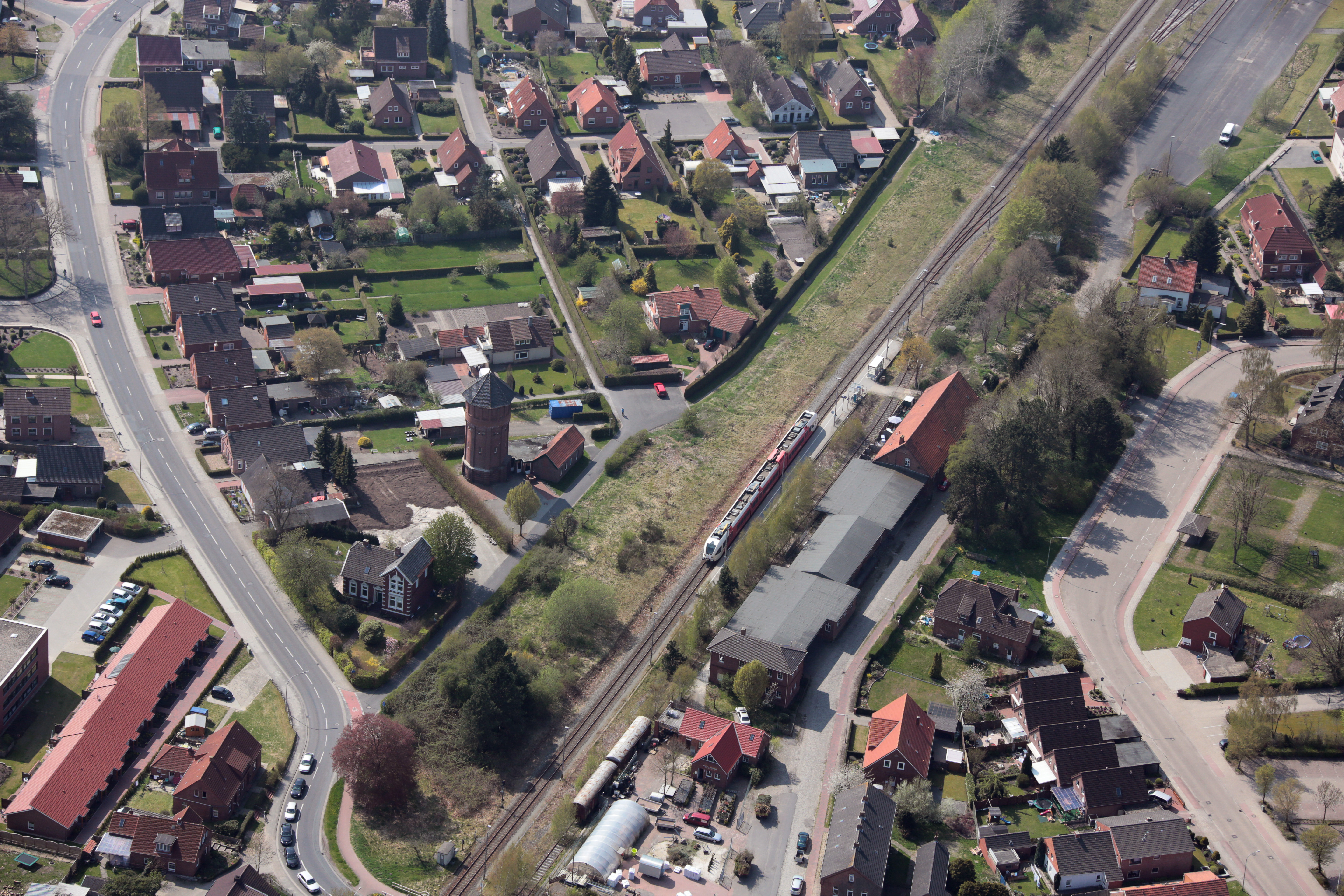 Fotoflug von Nordholz-Spieka nach Oldenburg und Papenburg This photo was taken by Alchemist-hp. If you use one of my photos, an email (account needed) or a message or direct to: my email account would be greatly appreciated. Please note the license terms. Other licensing terms can get discussed, too. This file is copyrighted and has been released under a license which is incompatible with Facebook's licensing terms. It is not permitted to upload this file to Facebook.